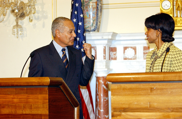 Ahmed Aboul Gheit, foreig minister of Egypt, with Condoleezza Rice